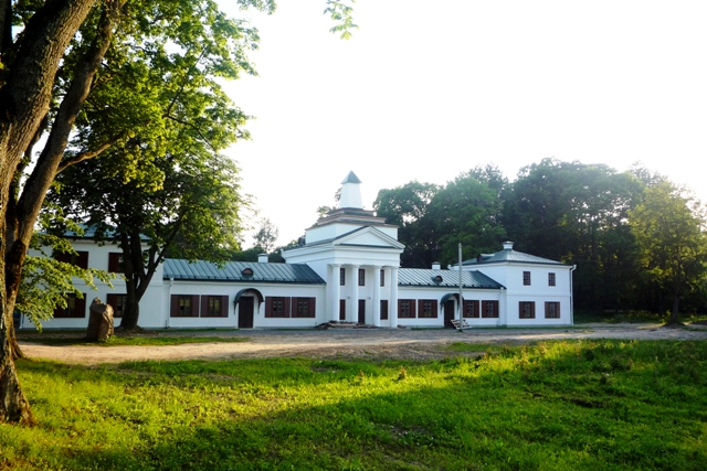 Ahinski Manor in Zaliessie (built in 18th century), Smarhoń district, Belarus This is a photo of Belarusian heritage monument. Reference number: 412Г000598 ( WLM)